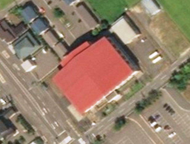 Satellite view.